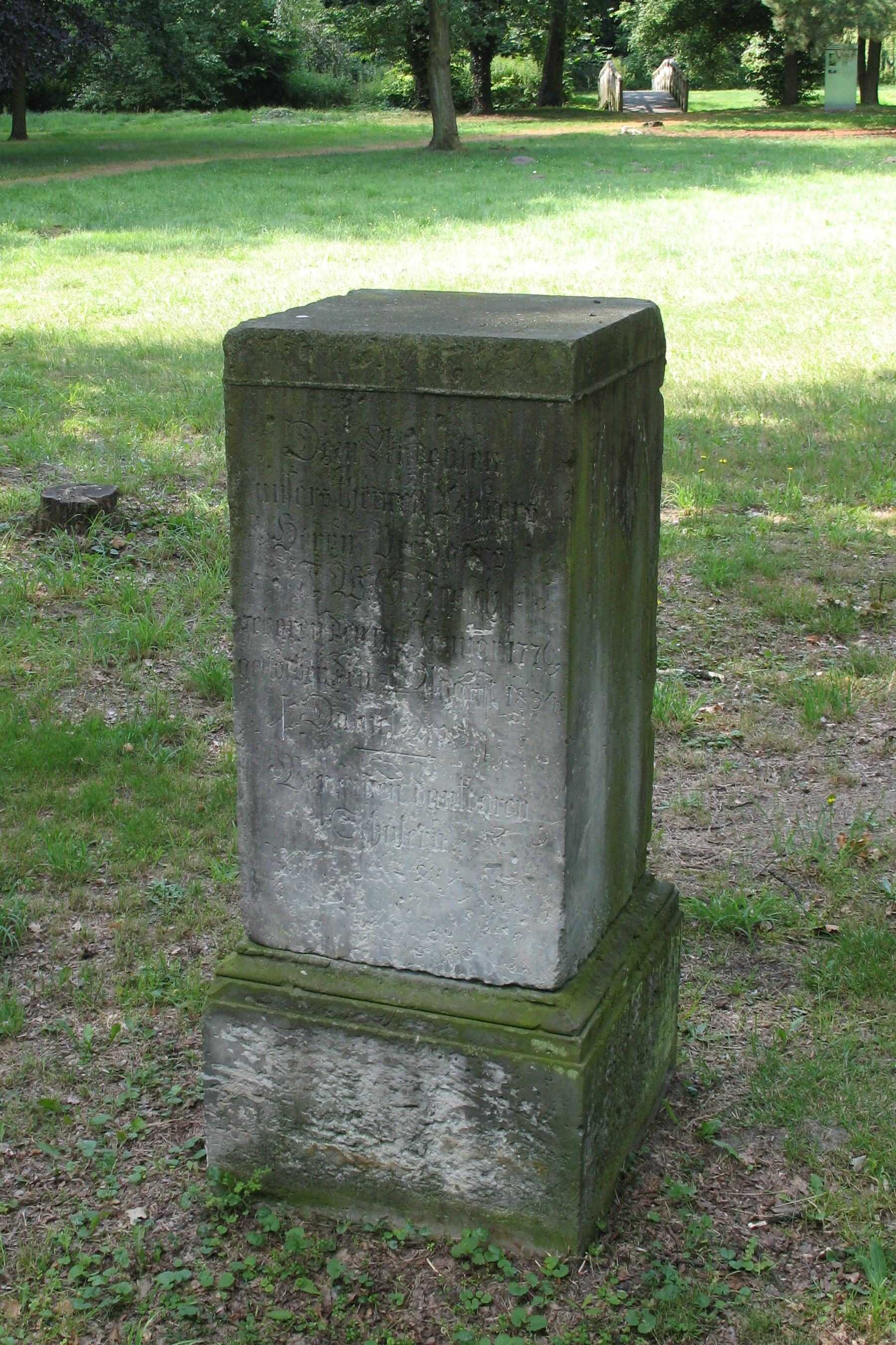 Memorial for Friedrich Wilhelm Gotthilf Frosch in Reckahn (municipality Kloster Lehnin) in Brandenburg, Germany